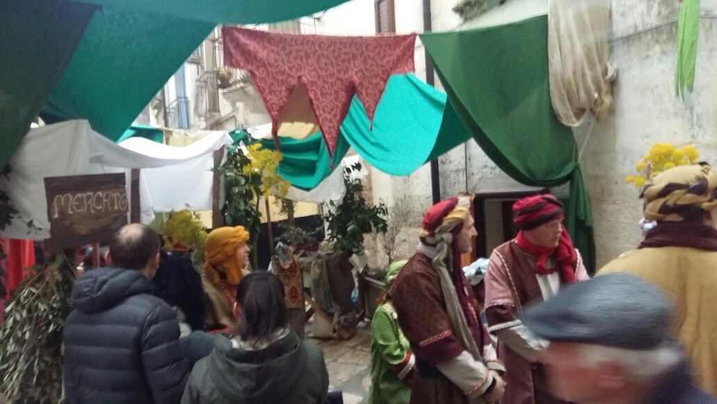 Federicus 2017 - Square